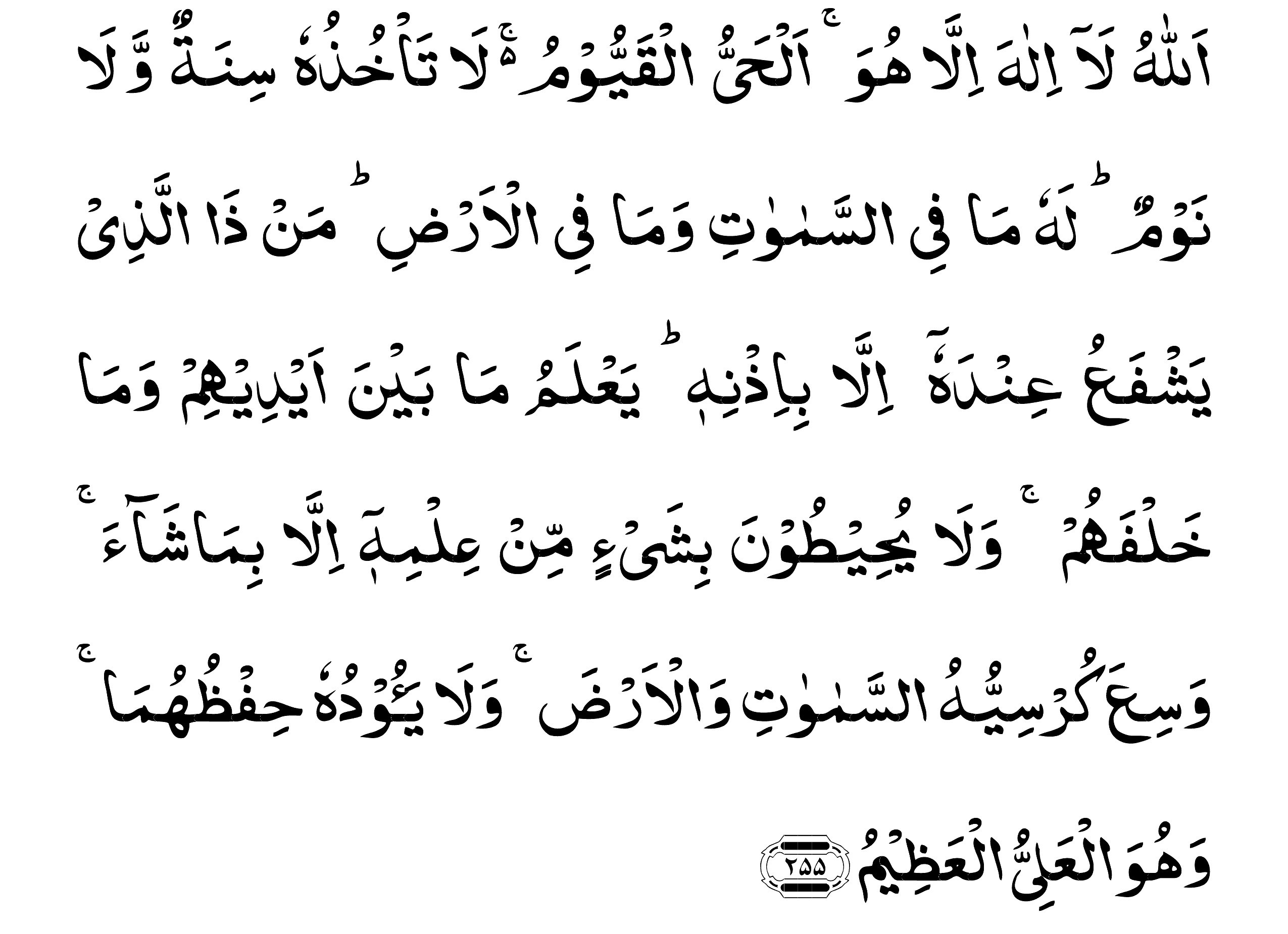 002255 Al-Baqrah UrduScript